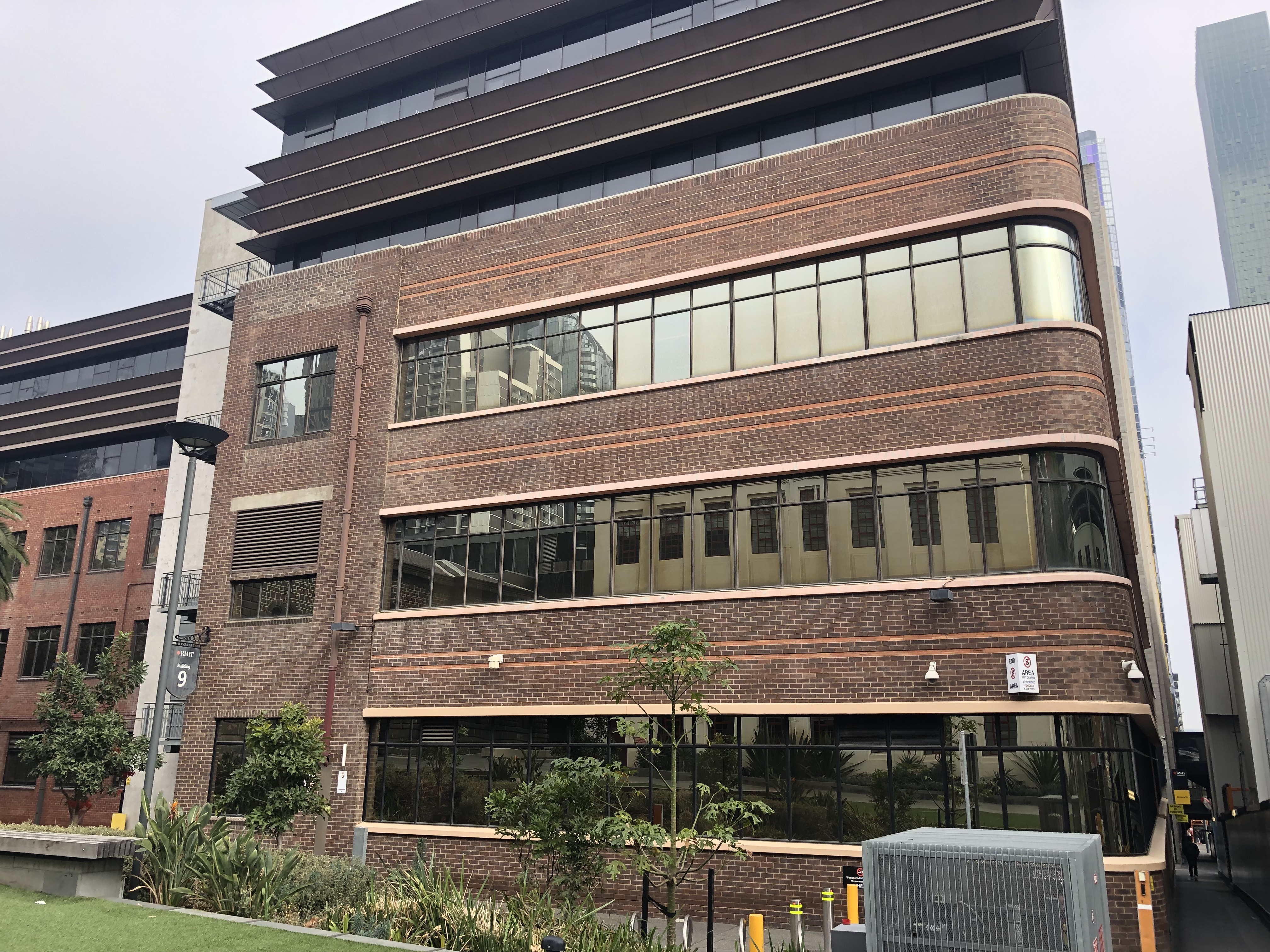 Building 9 on the Melbourne City campus of RMIT University.